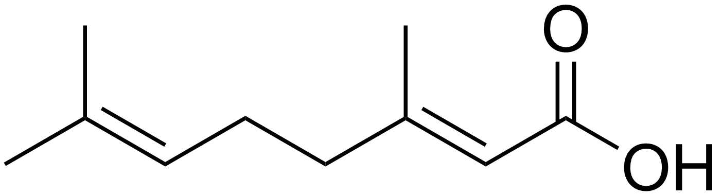 chemical structure of geranic acid